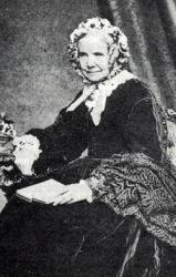 Charlotte Elliott (1789-1871)